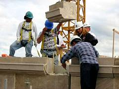 Hoisting the last cornice stone to the Phoenix project facade.